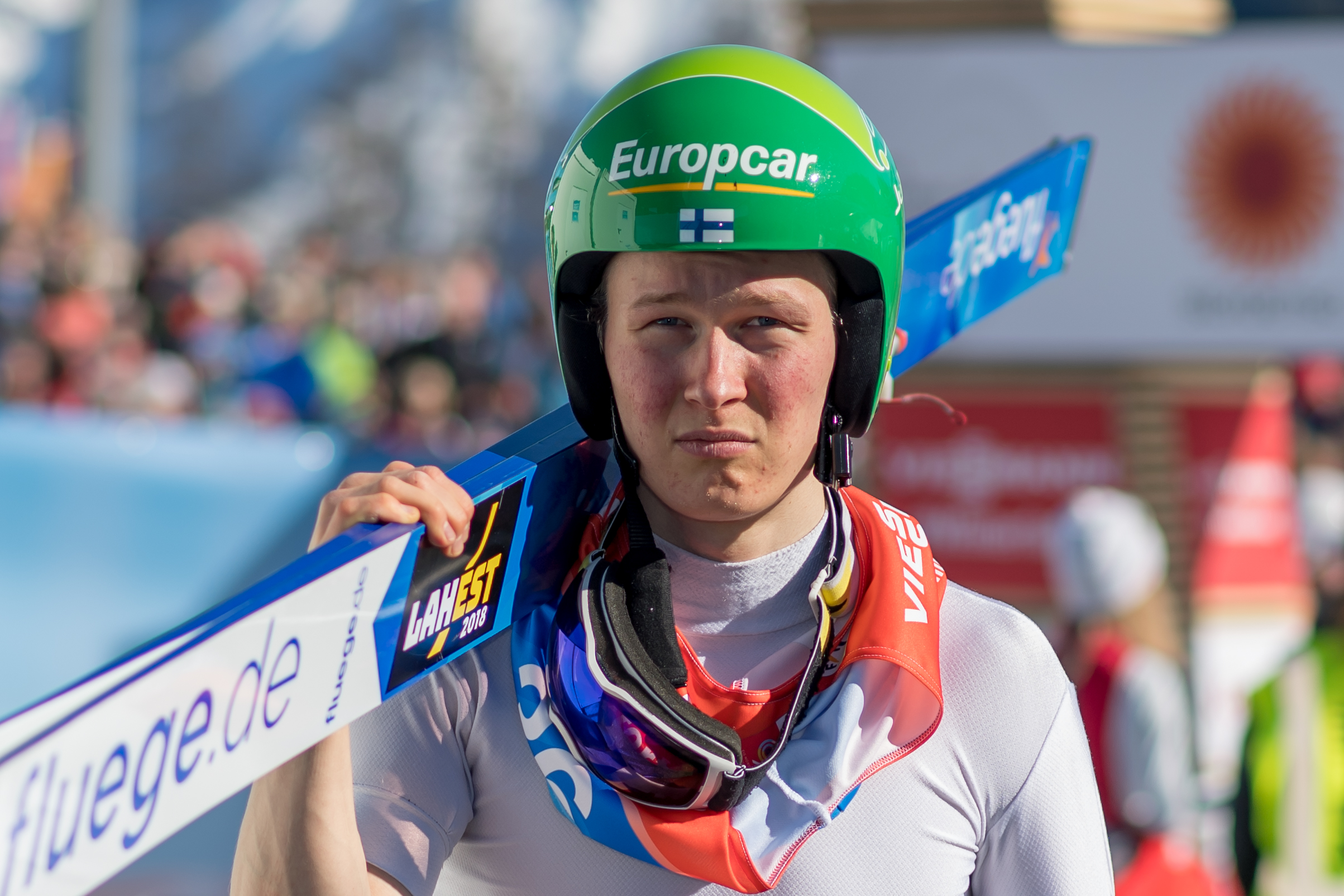 Seefeld, February 28, 2019: FIS Nordic World Ski Championships, Nordic Combined.